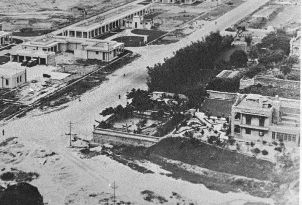 SJACS Campus, Hong Kong. A villa at that time.